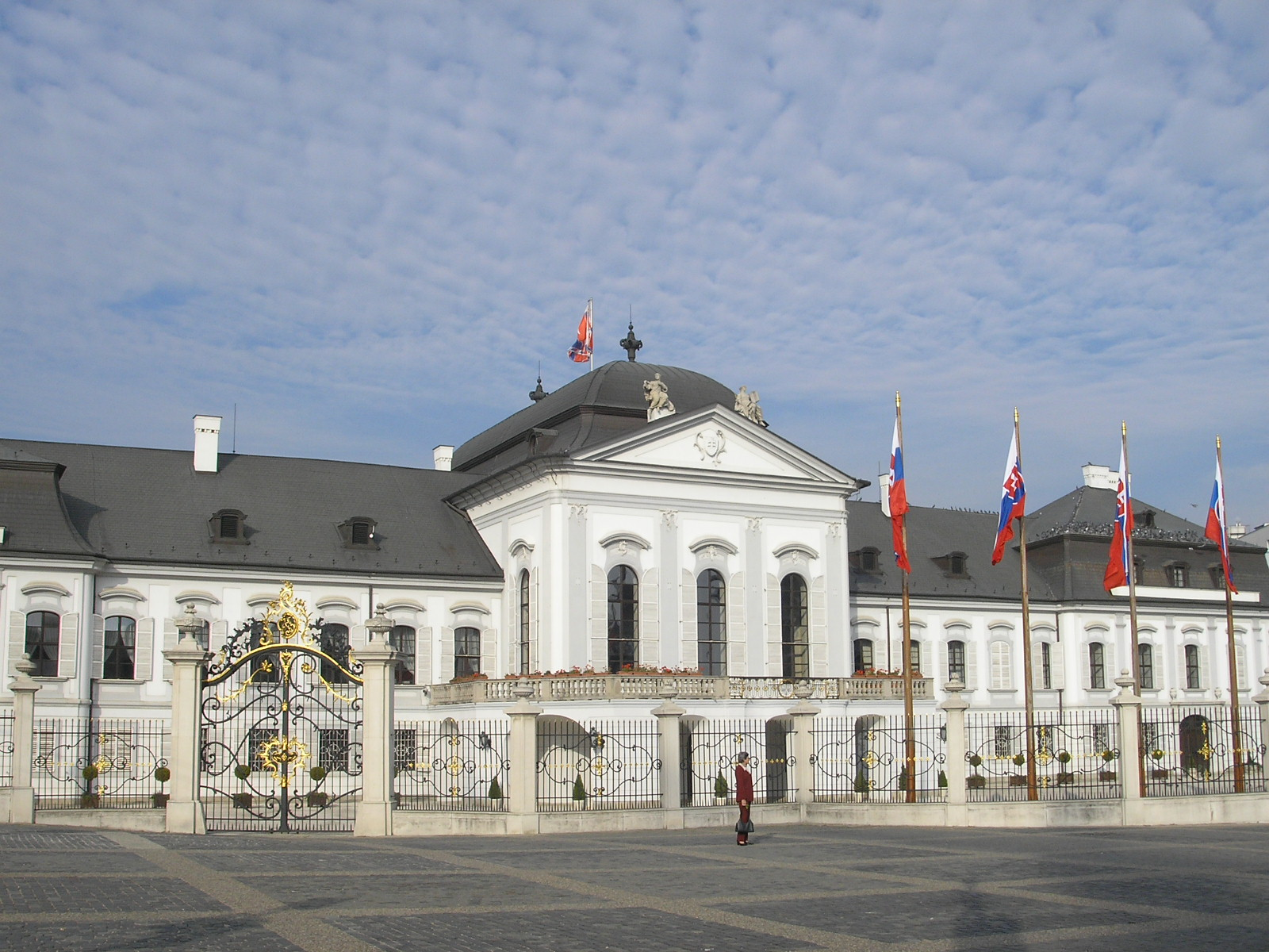 Grassalkovich Palace (Grasalkovicov palác) in Bratislava. Seat of the President of Slovakia.